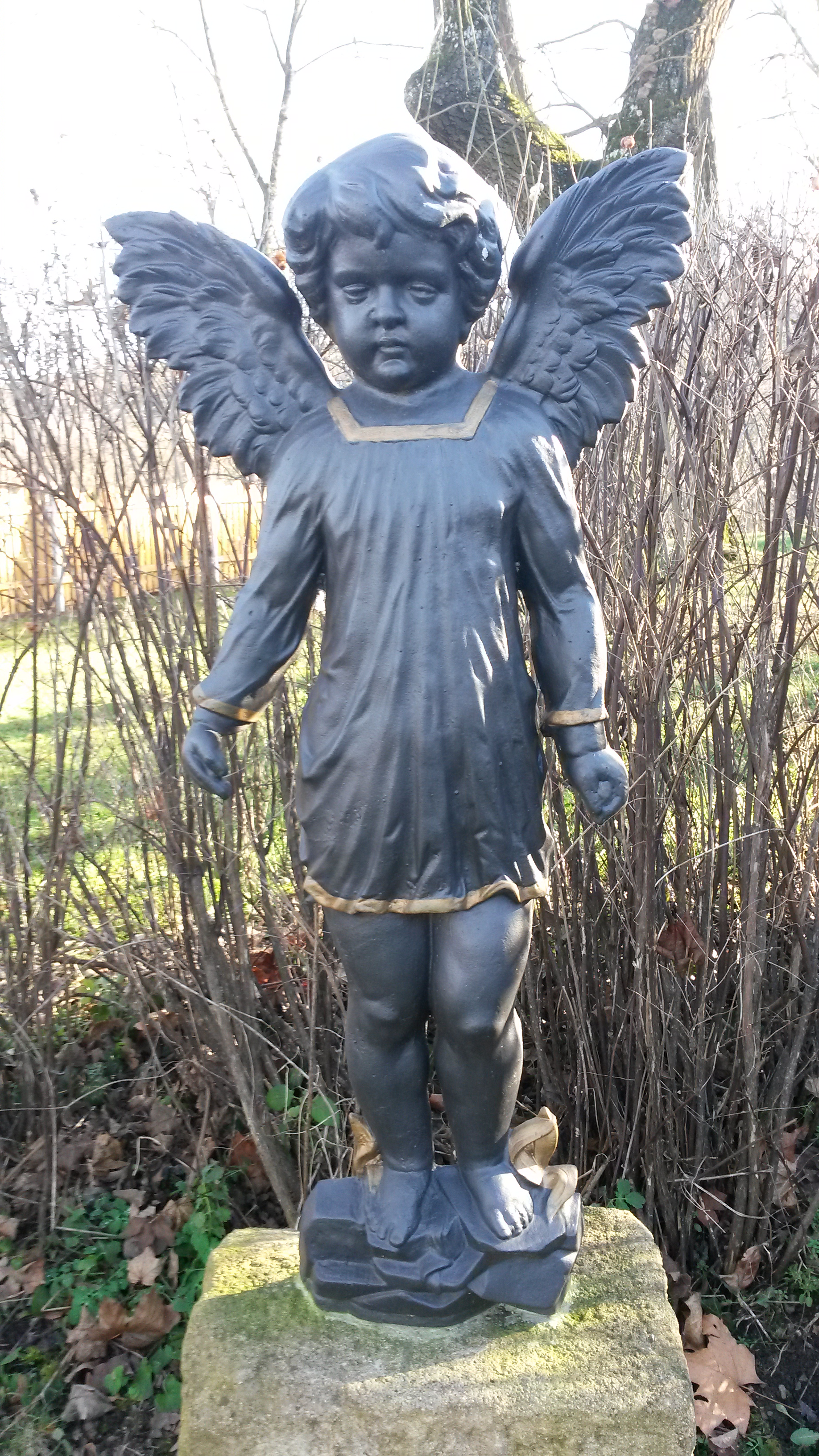 Fürstenberg Tomb in Nižbor - angel